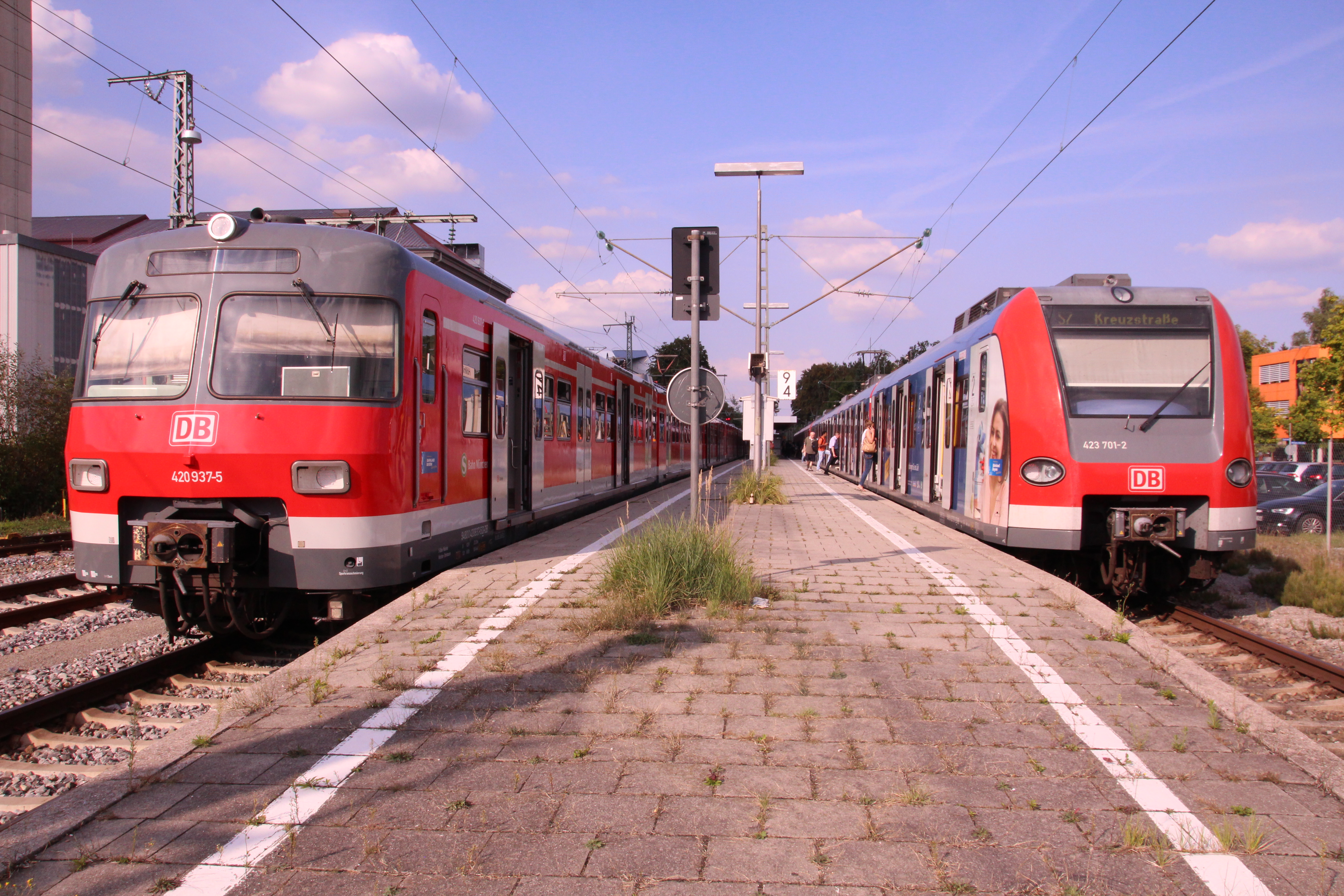 DB Class 420 meets DB Class 423 at train stop Höllriegelskreuth.